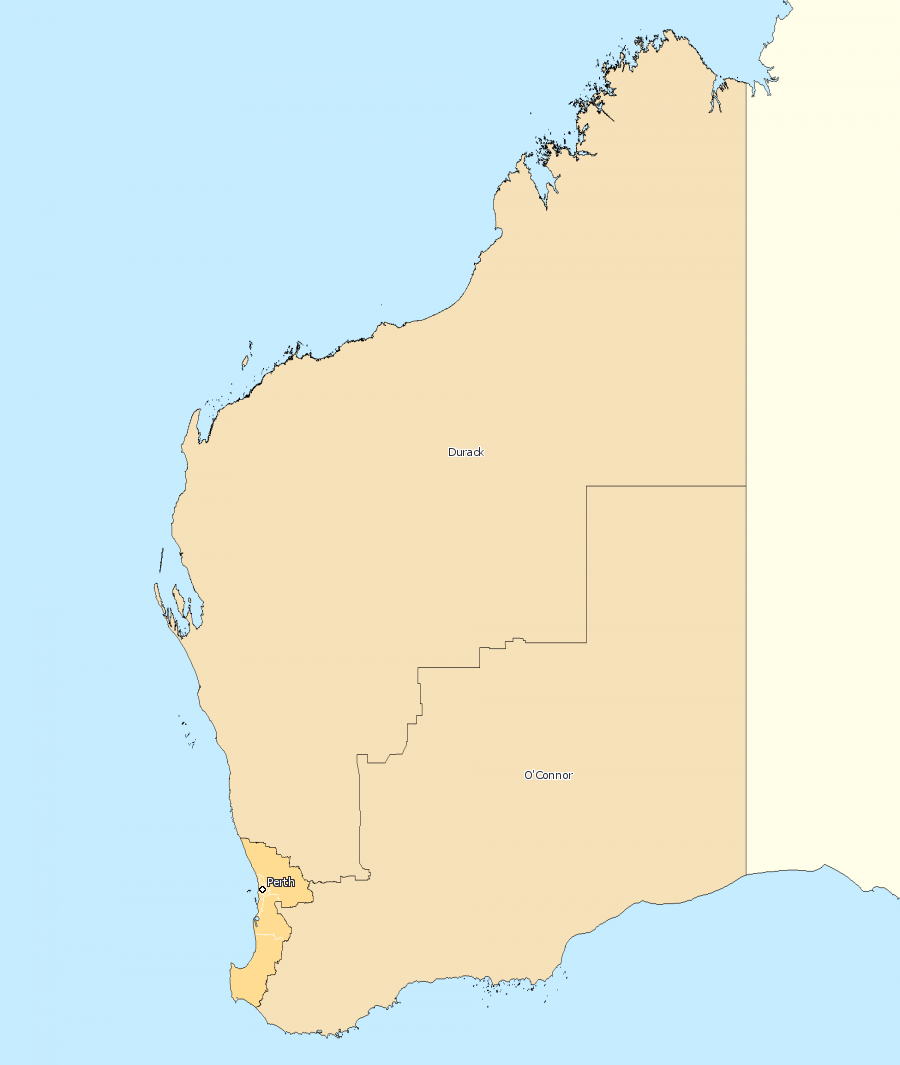 This image incorporates data that is: © Commonwealth of Australia (Australian Electoral Commission) 2009 Rest of Western Australia divisions overview 2010